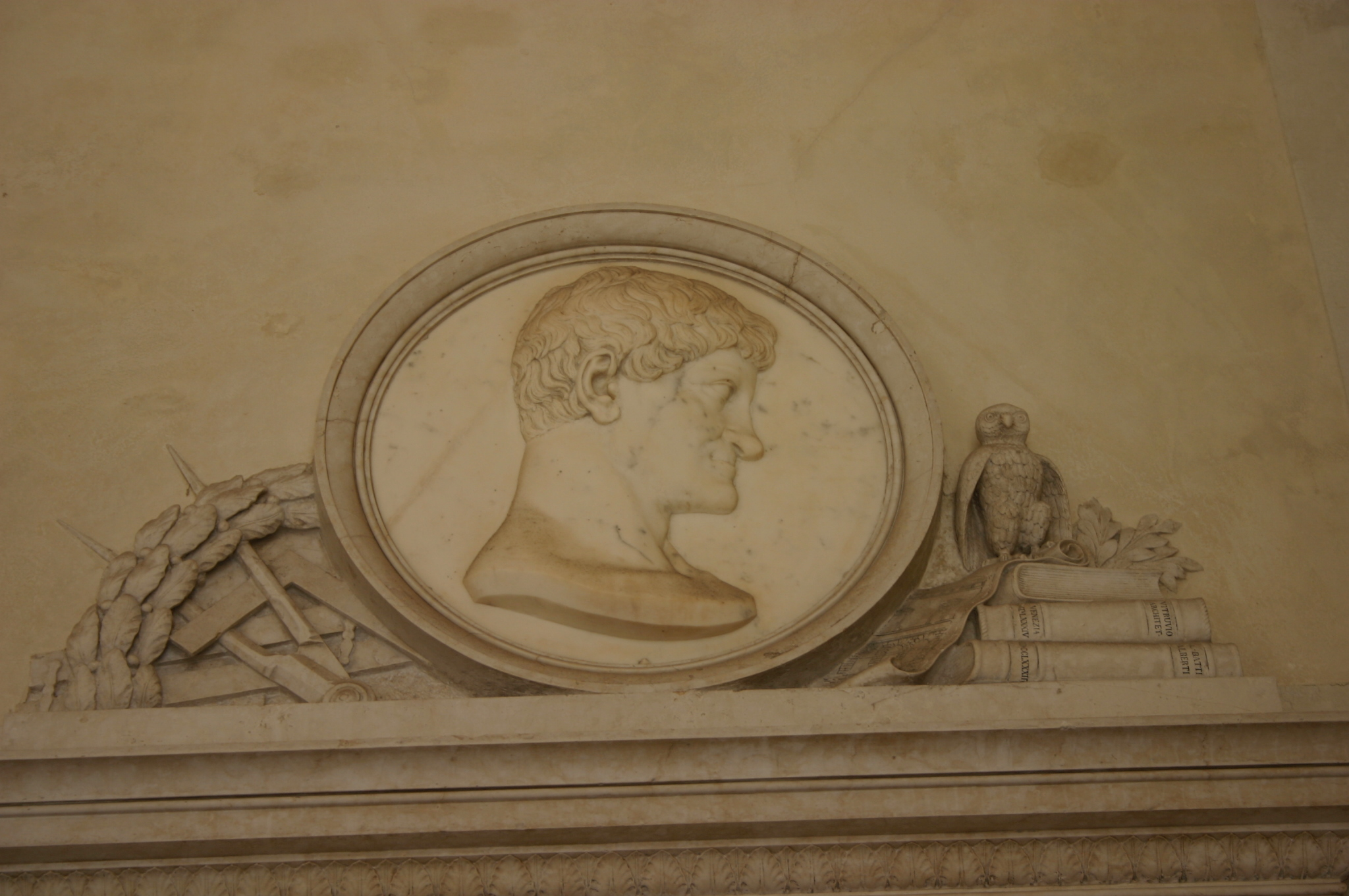 Venice, pronao of Teatro La Fenice Opera House. 1837 monument to architect Gian Antonio Selva (1753-1819), who rebuilt the theatre after the fire.Picture by Giovanni Dall'Orto, August 6, 2007.